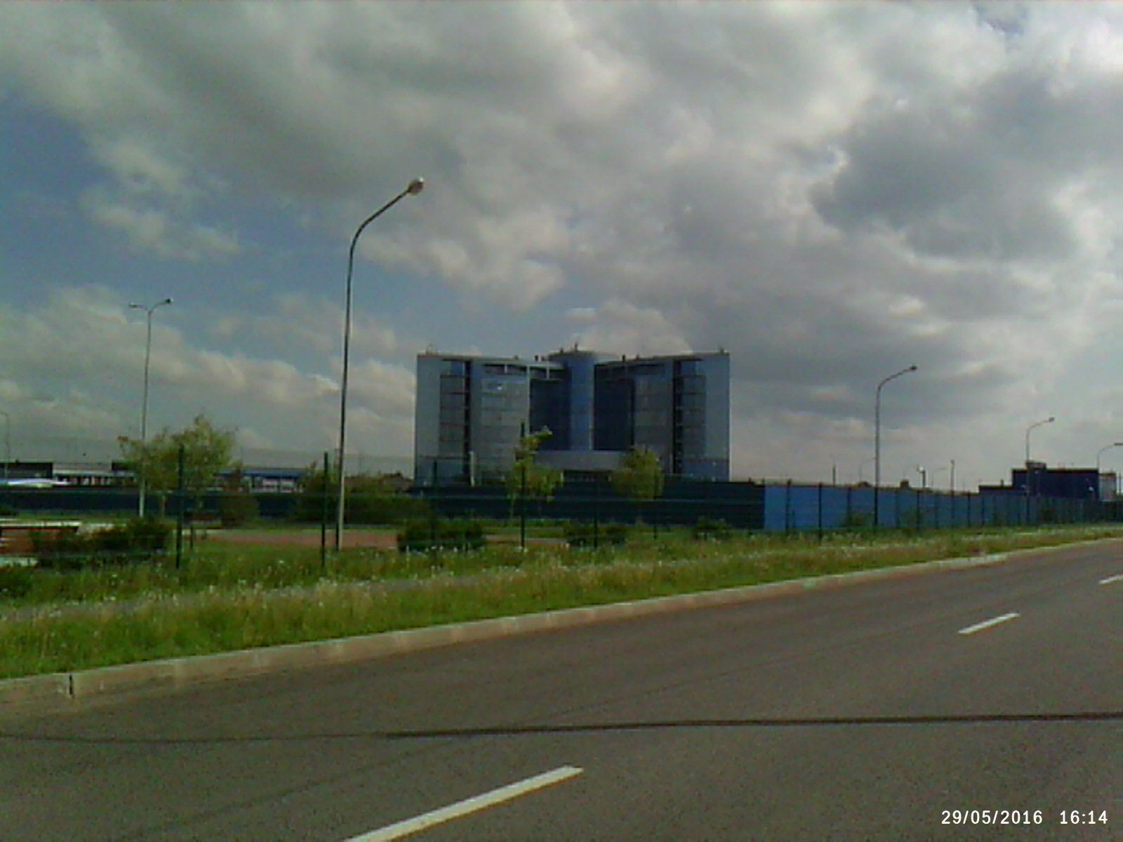 The special economic zone "Neudorf", Strel'na, St. Petersburg